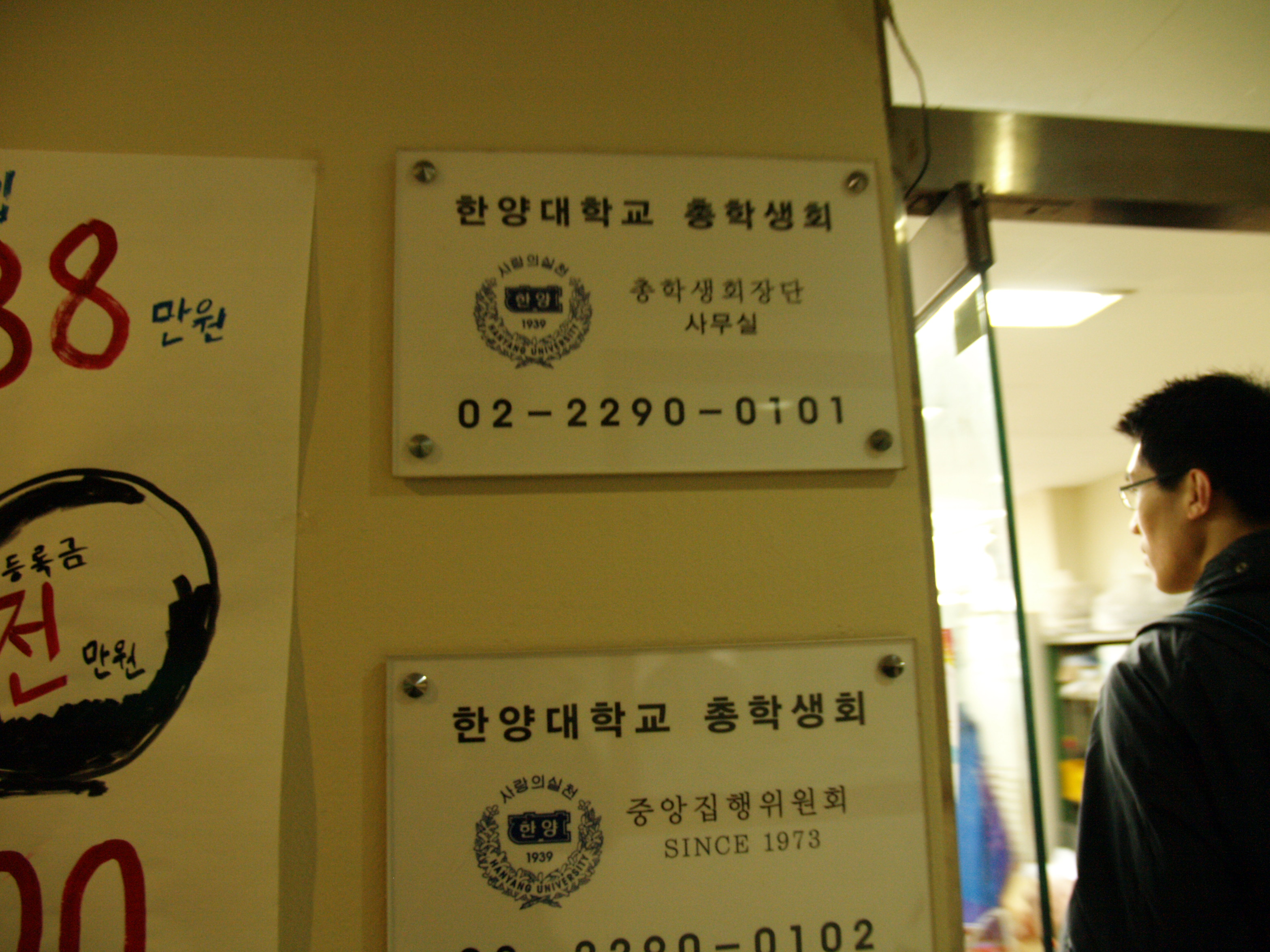 GSA office, Hanyang University